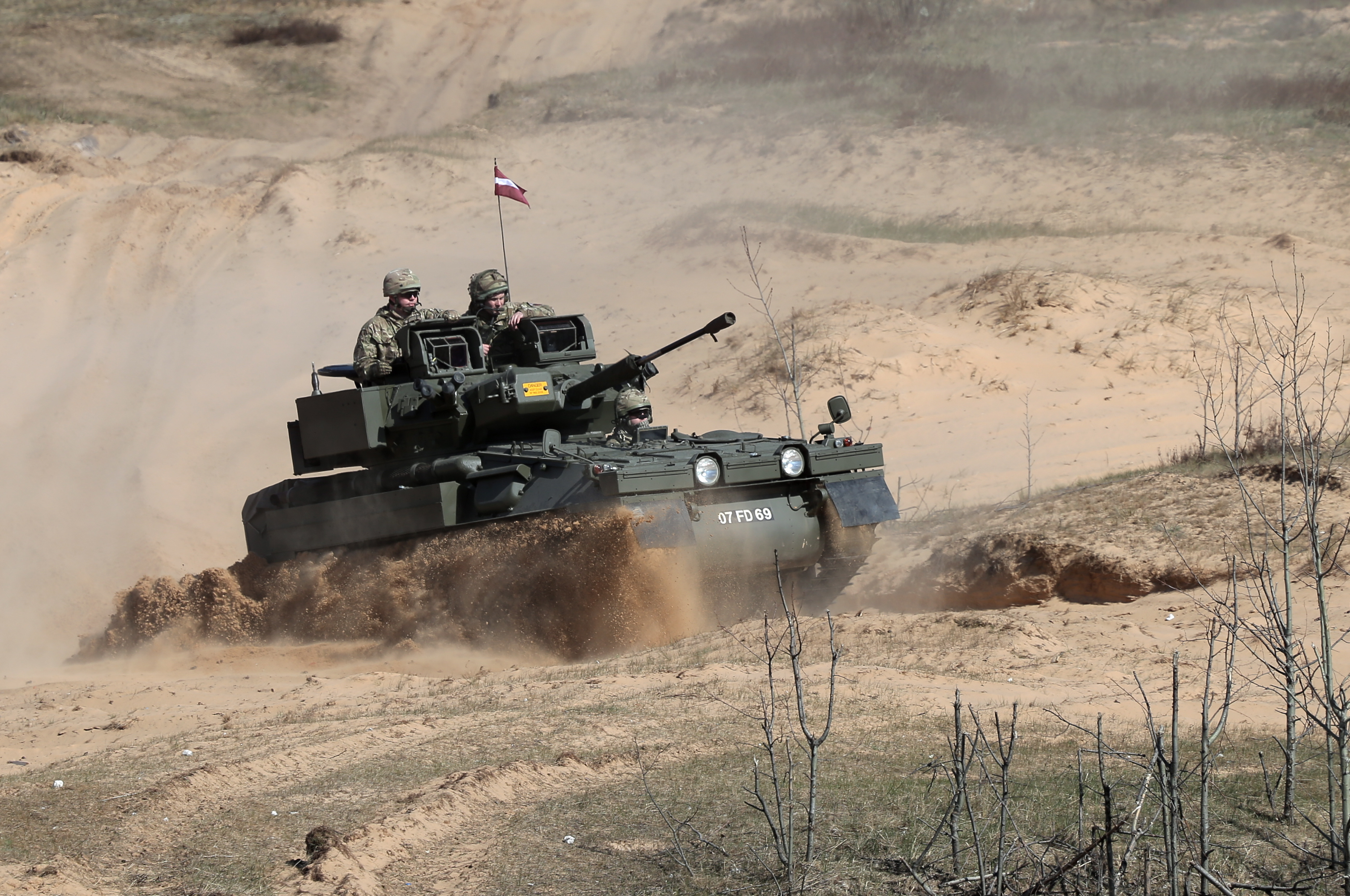 CVR(T) Demonstration in Ādaži training area